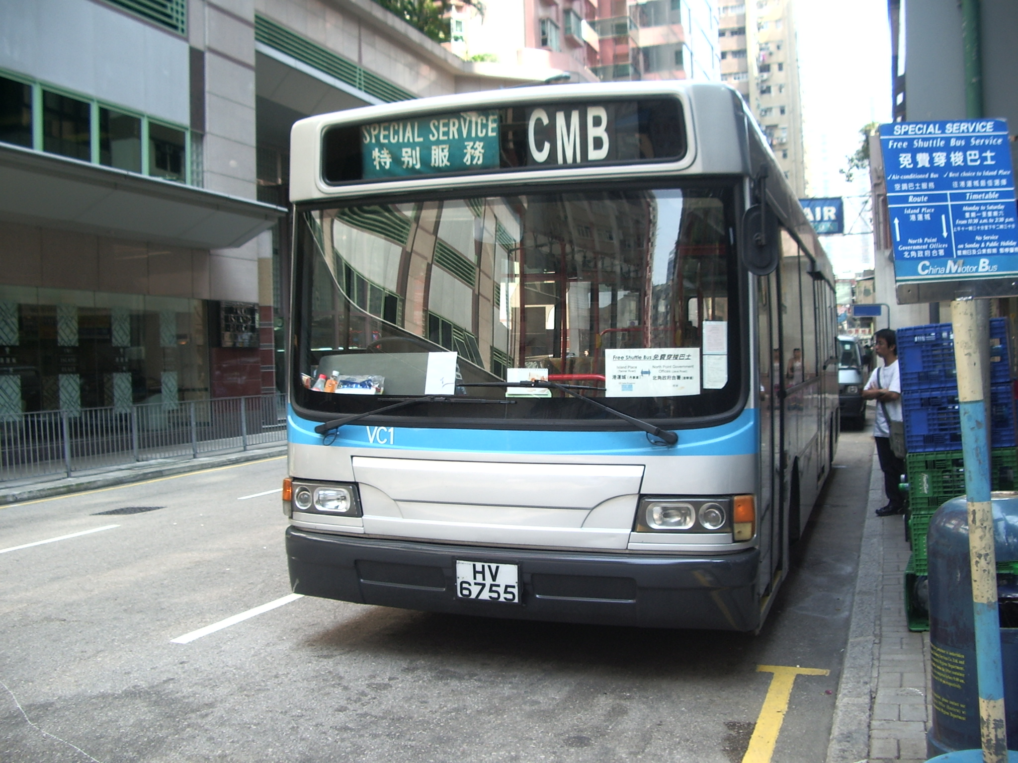 Front view of China Motor Bus VC1, operating as a shuttle between Island Place and North Point Government Offices. Bus stopped at Tanner Road (opposite Island Place), North Point, Hong Kong. Taken on 22 October 2005 by Carlsmith.